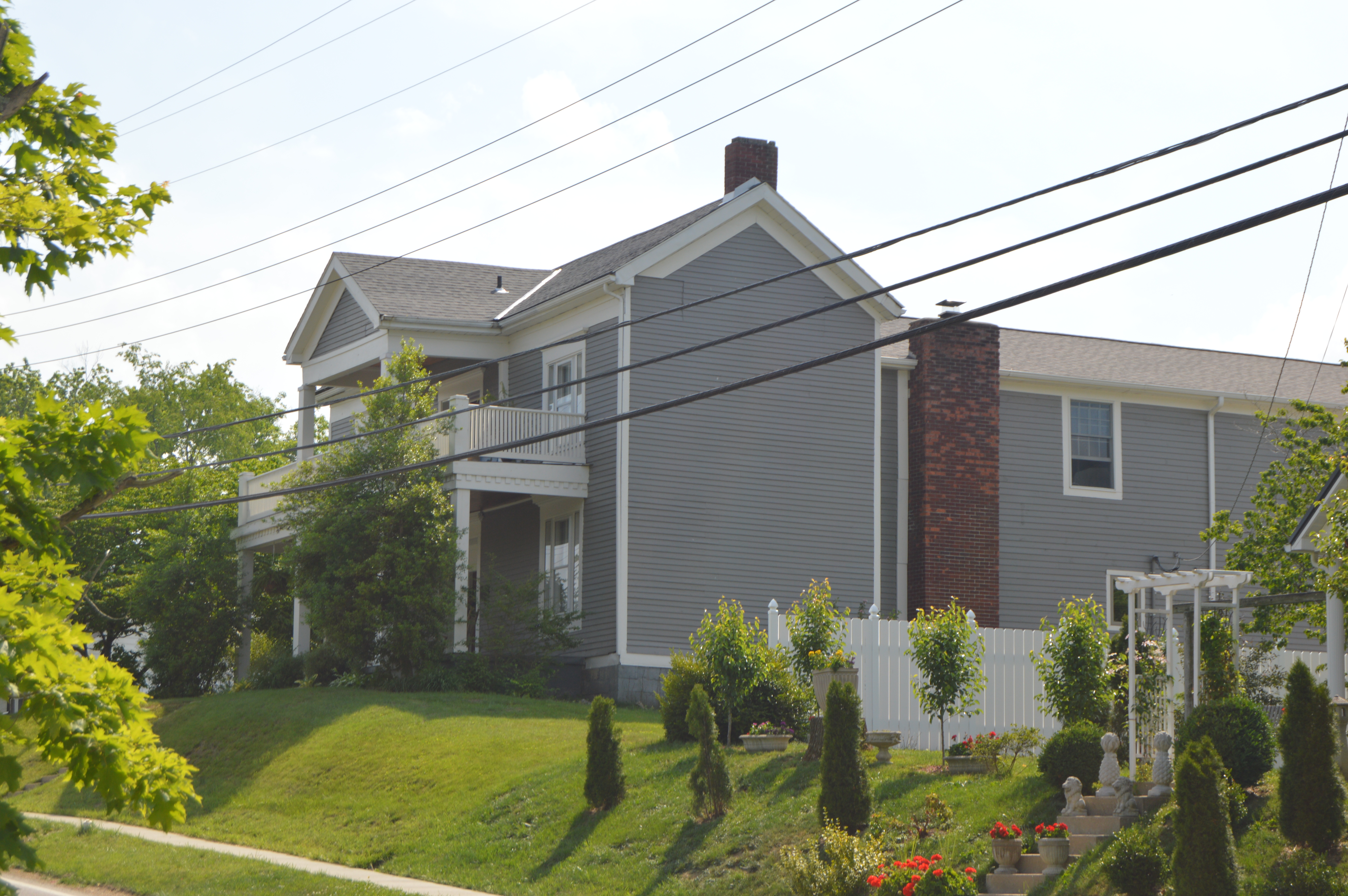 Front and northern side of the Judge John E. Cooper House, located at 709 N. Main Street (Kentucky Route 7) in West Liberty, Kentucky, United States. Built in 1872, it is listed on the National Register of Historic Places.